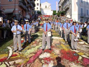 This is a Sandro Fermante's picture, the uploader. find me on